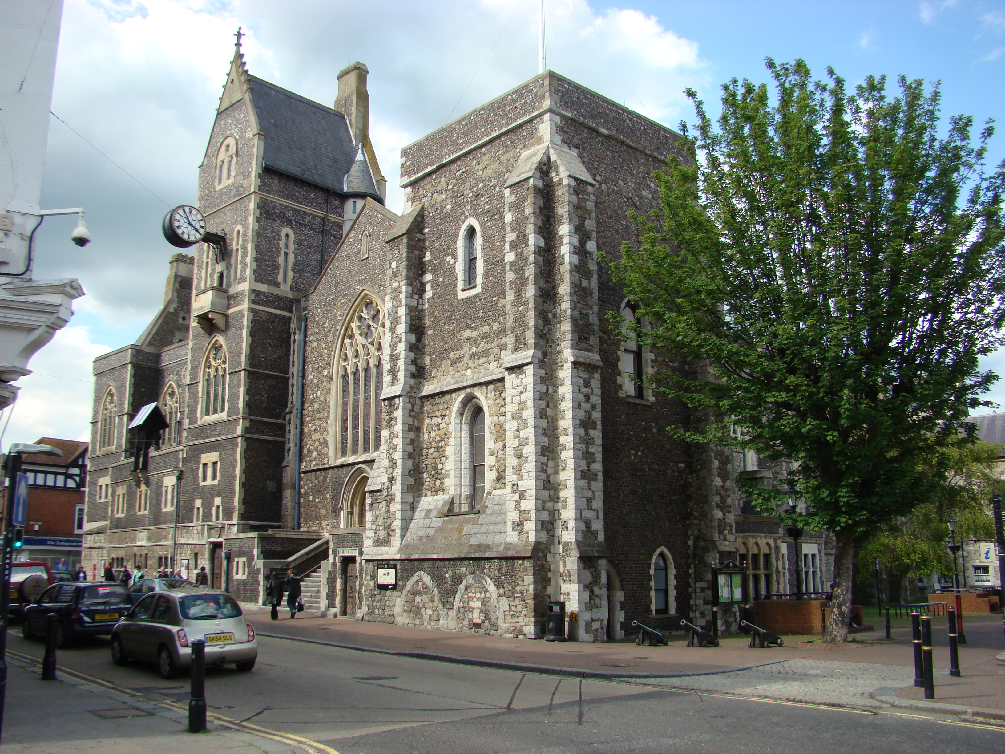 Townhall Dover